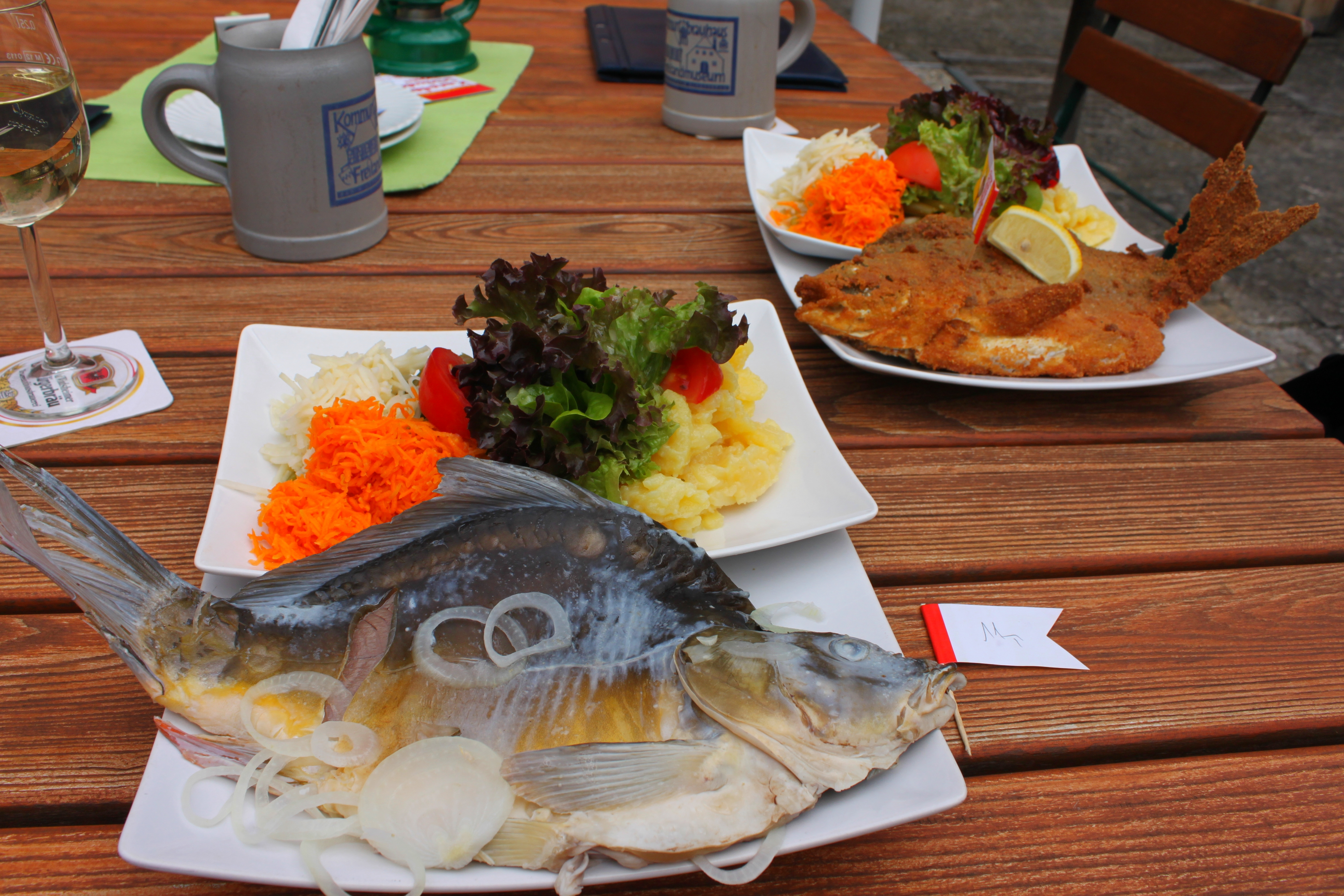 Poached Carp, cooked in vinegar, onion stock, baked carp in the background, both with mixed salad as a side dish. Photographed at Gasthaus zum Hirschen in Bad Windsheim.